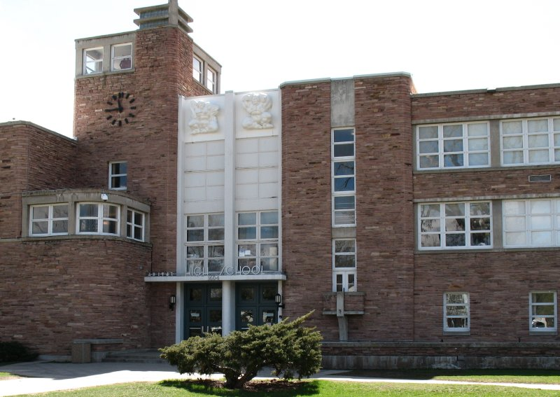 Built in 1933, the classic art deco facade and design of the school has been classified as a historic building. However, since this school is in the Boulder Creek flood zone, the future of this historic landmark is in jeopardy.